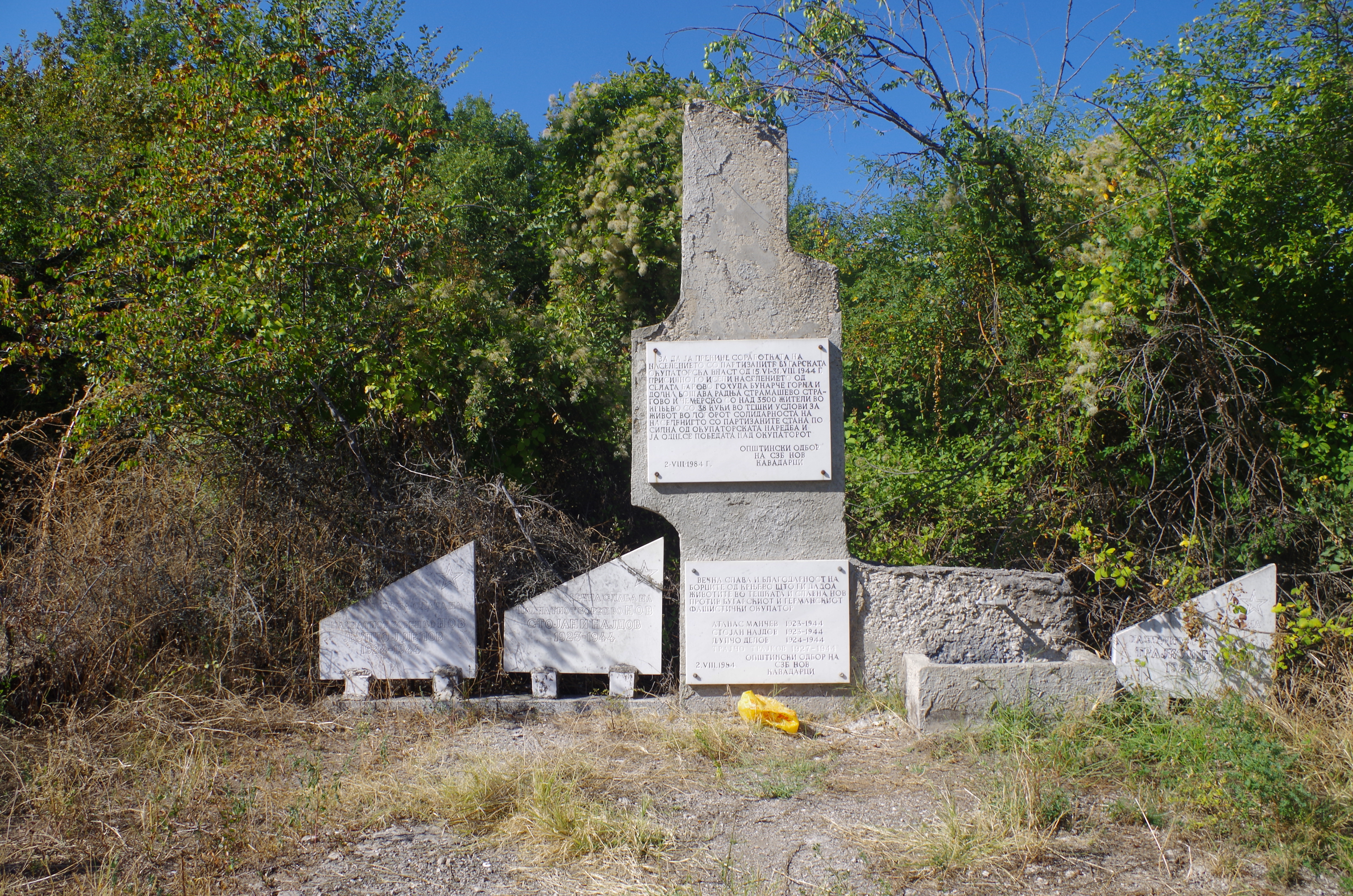 World War II monuments near the village of Čemersko